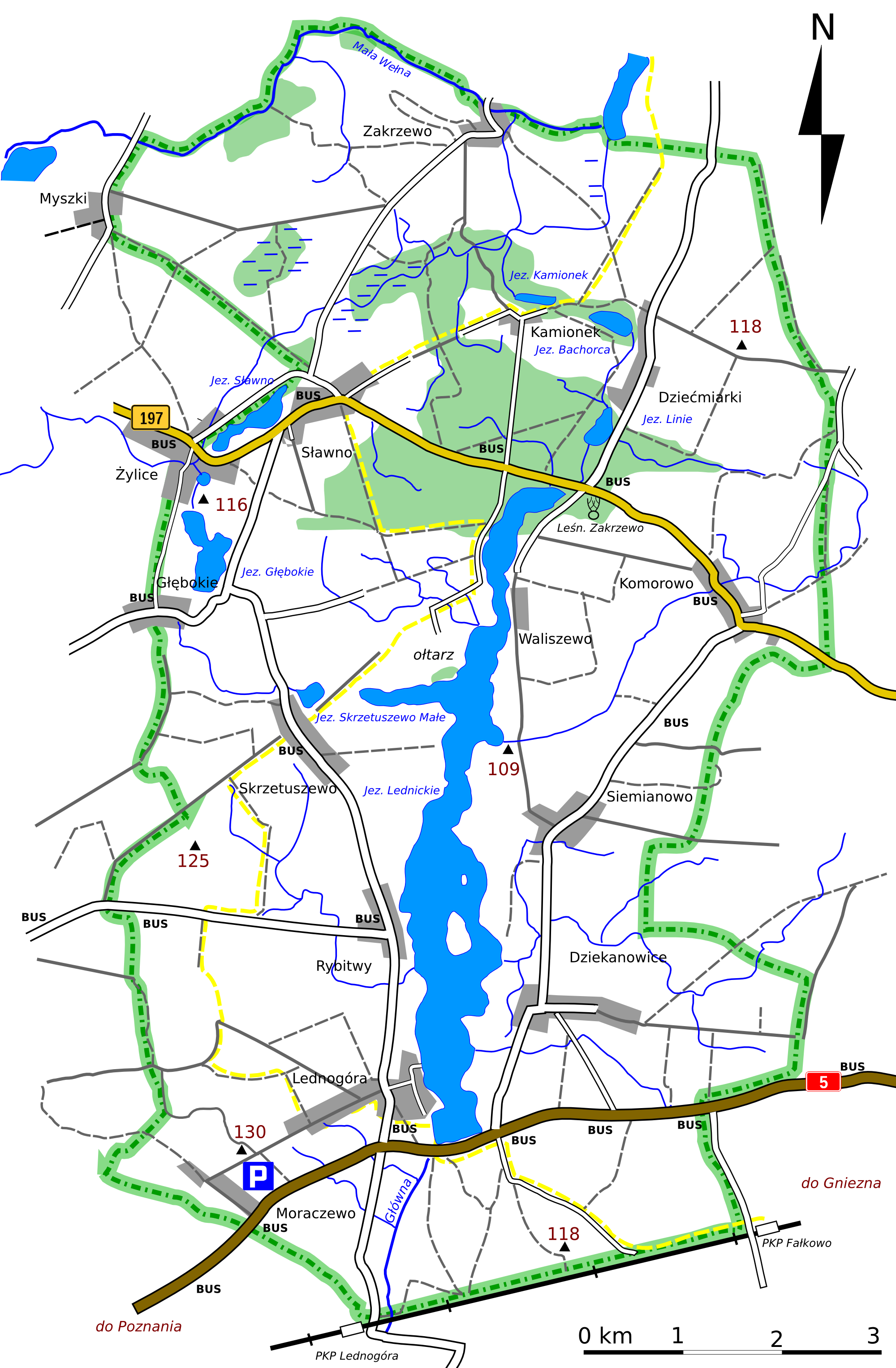 Lednica Landscape park, Poland